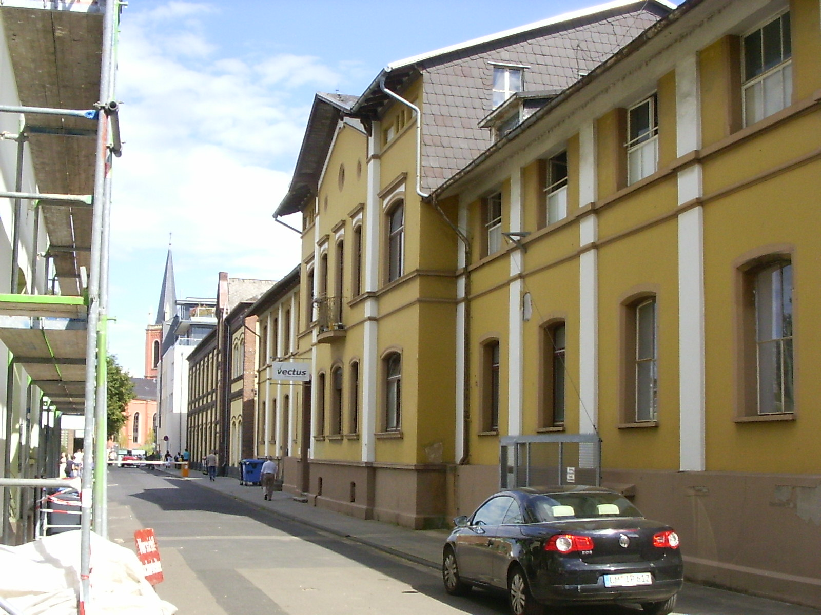 Former Limburg/Lahn train maintenance center